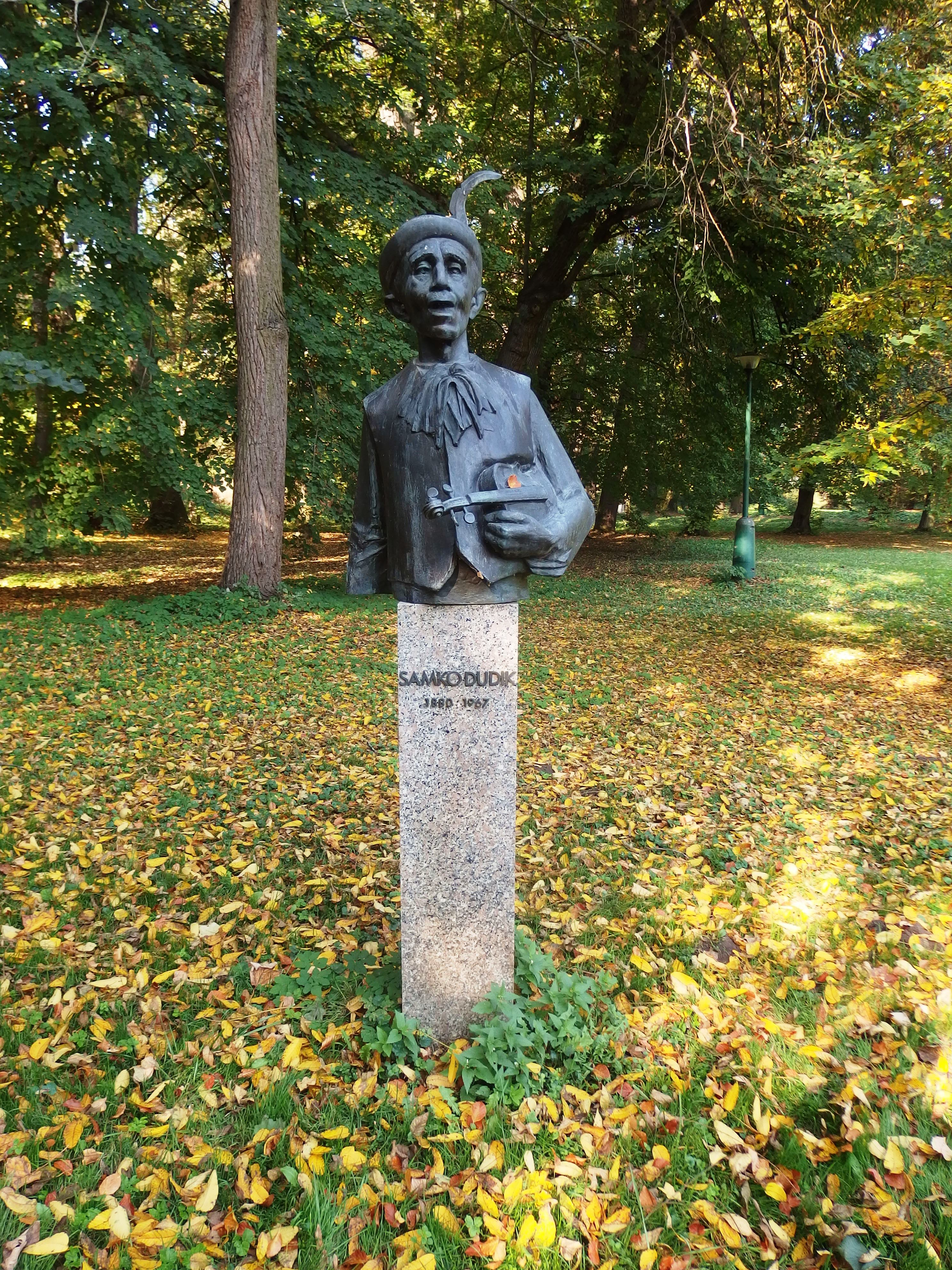 Strážnice, Hodonín District, Czech Republic. Park of the chateau.